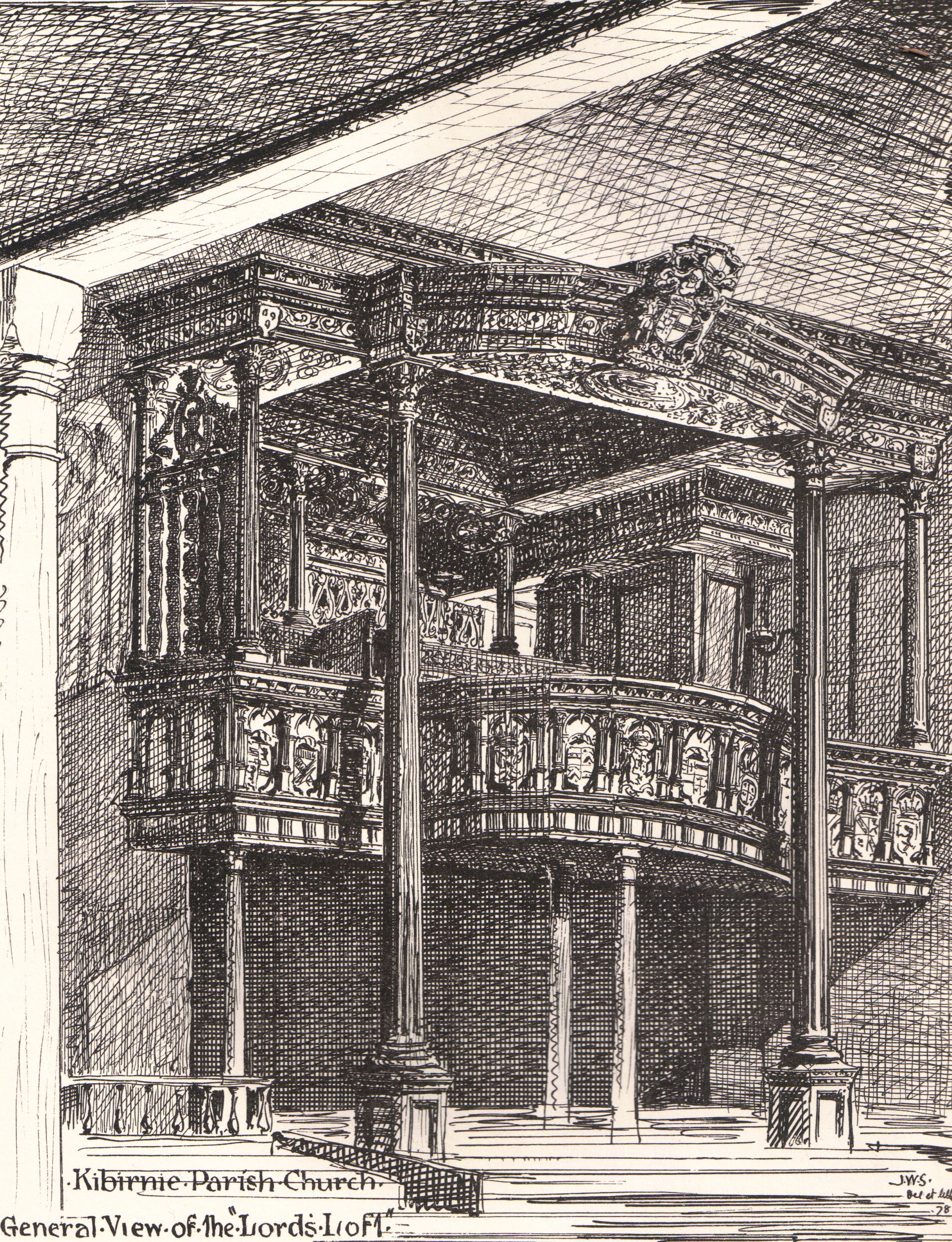 Kilbirnie Barony Kirk - The Lord's Loft. North Ayrshire, Scotland.